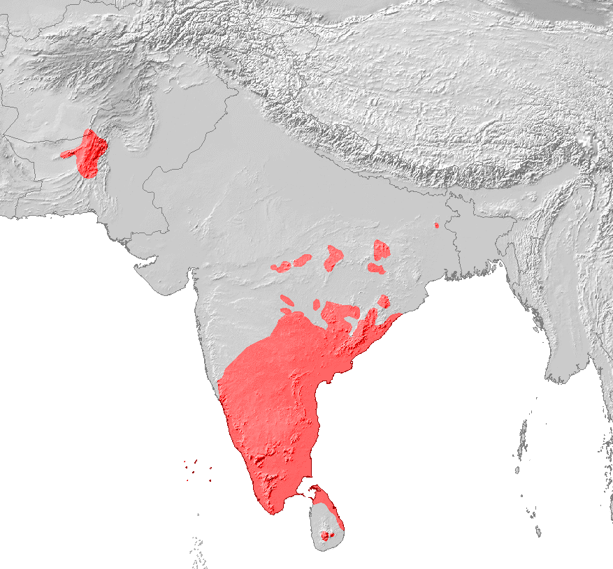 Area where Dravidian languages are spoken